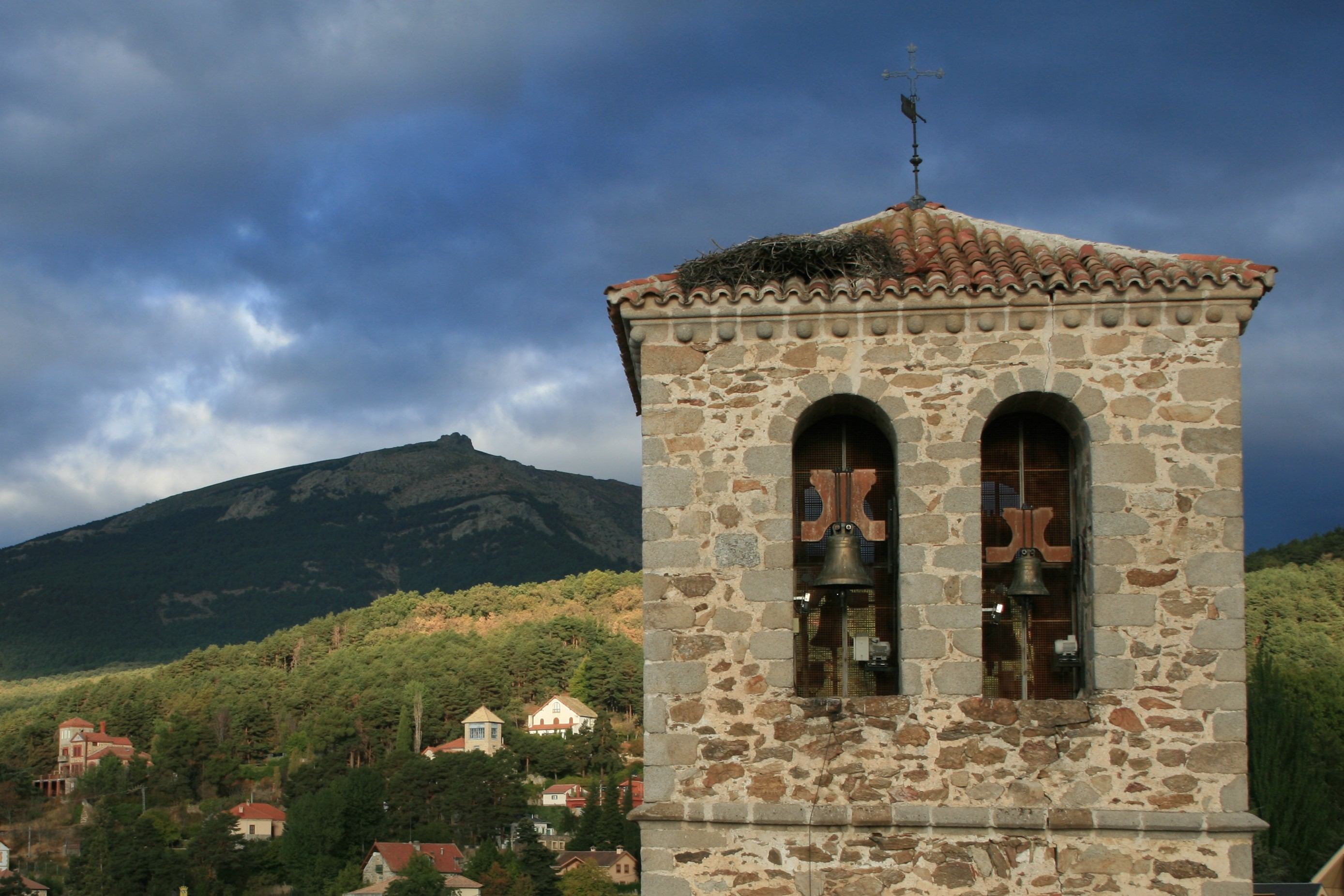 miraflorez